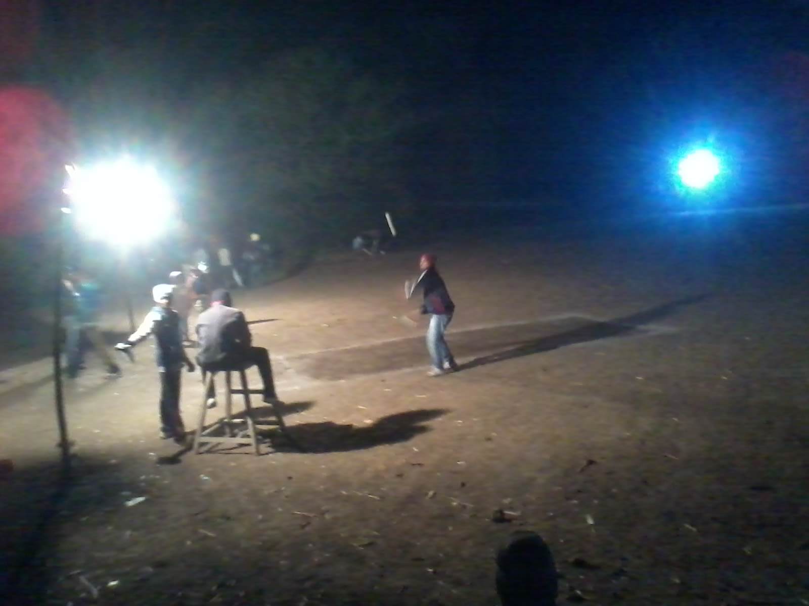 Vachhavad8